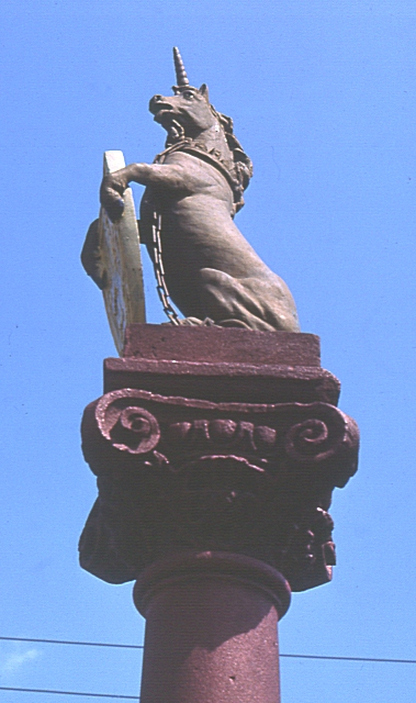 The unicorn atop of the Mercat Cross of Errol in Perth and Kinross, Scotland.